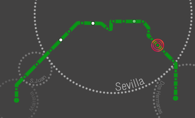 Location